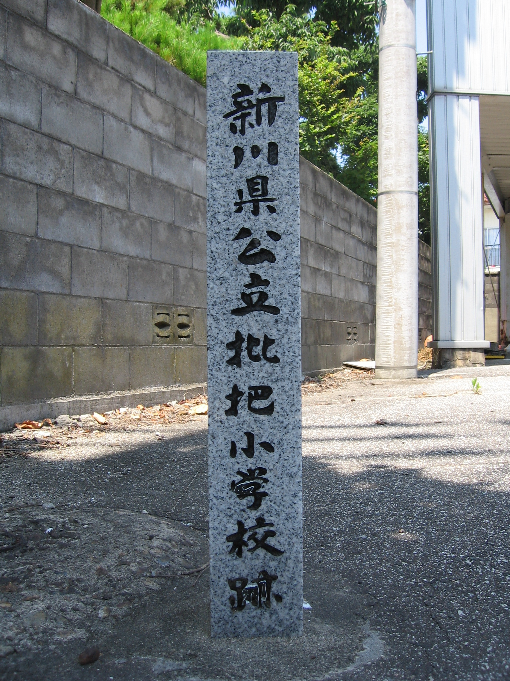 The monument in the site of Niikawa Prefectural Biwa Elementary School. In Iguchi Hongo, Takaoka, Toyama, Japan.